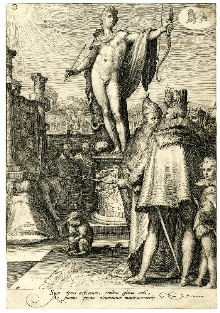 Engraving depicting the Greek god Apollo as personification of good government. In the top right corner the zodiac sign Leo. From the series The seven planets.